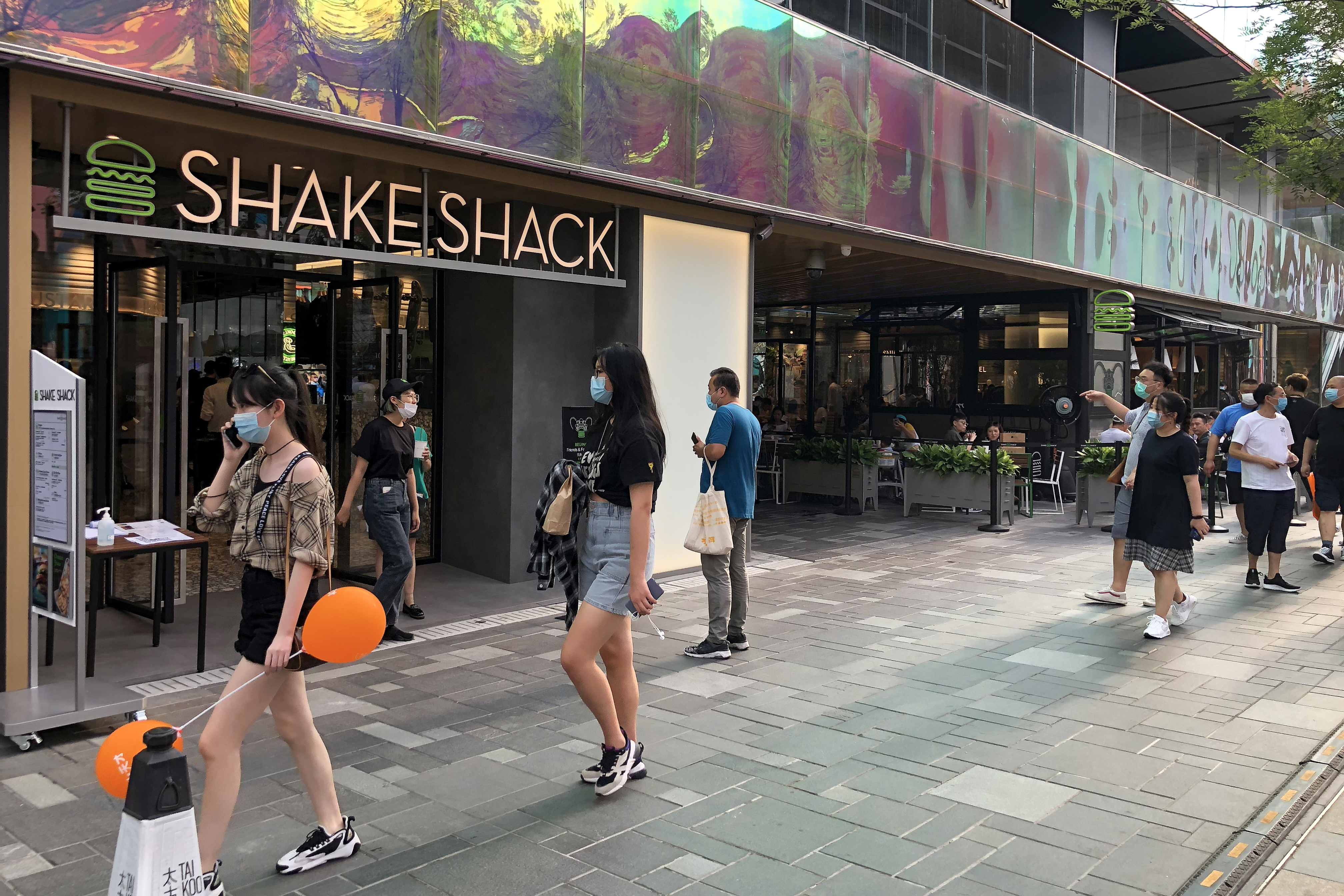 Official opening date: 12 August 2020.